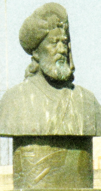 File altered from File:Burzoe.jpg according to permission mentioned on Burzoe.jpg page ( - GNU Free Documentation License, Version 1.2 and Creative Commons Attribution-Share Alike 3.0 Unported license - due to surface focus on original image